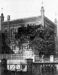 Synagogue in Gorzów Wielkopolski